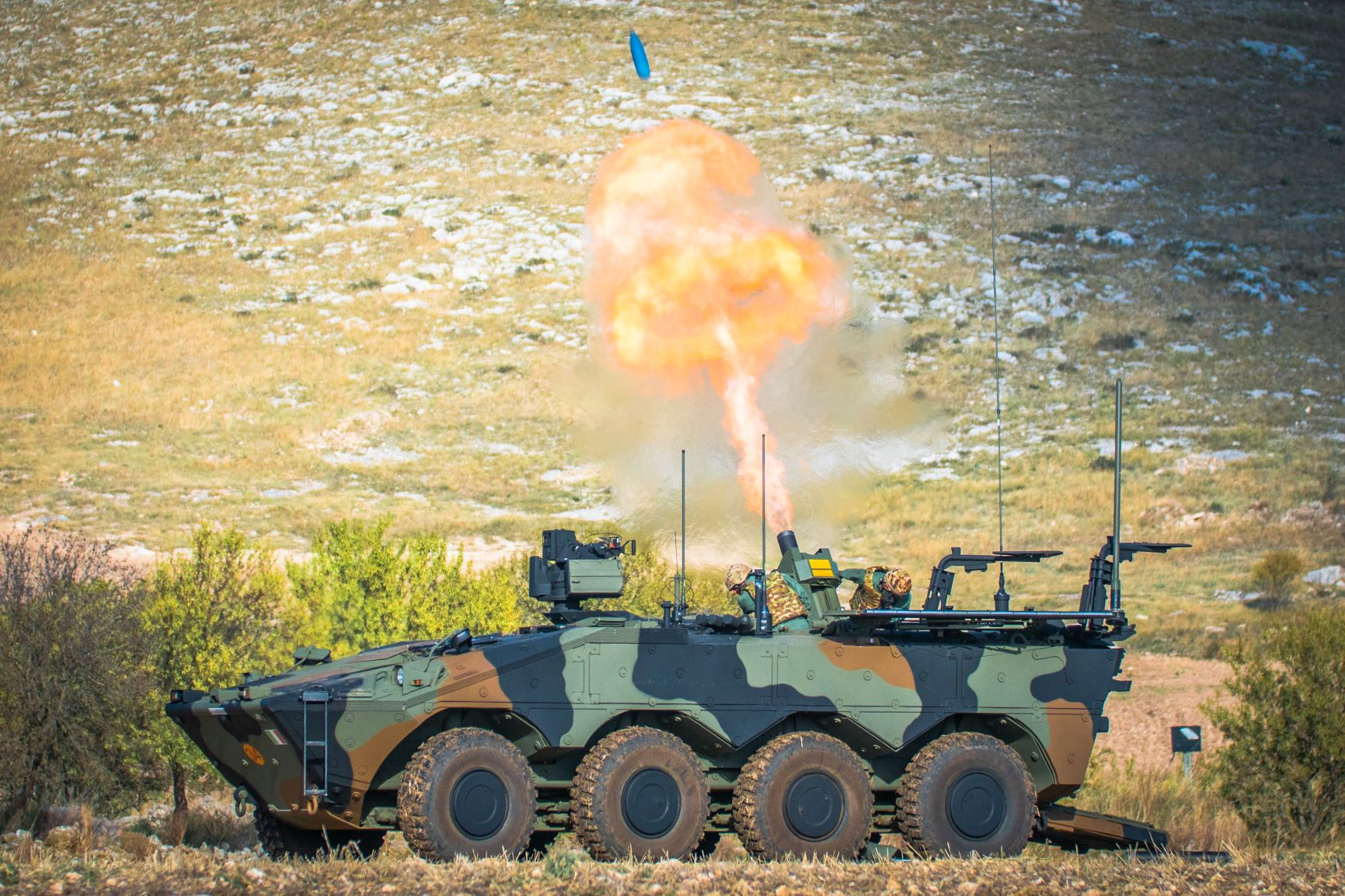 Italian Army - Troops from the 82nd Infantry Regiment "Torino" exercise with a VBM Freccia Mortar Carrier in Torre di Nebbia, October 2019